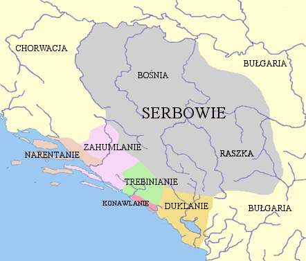 Serb tribes in VII-IX c.